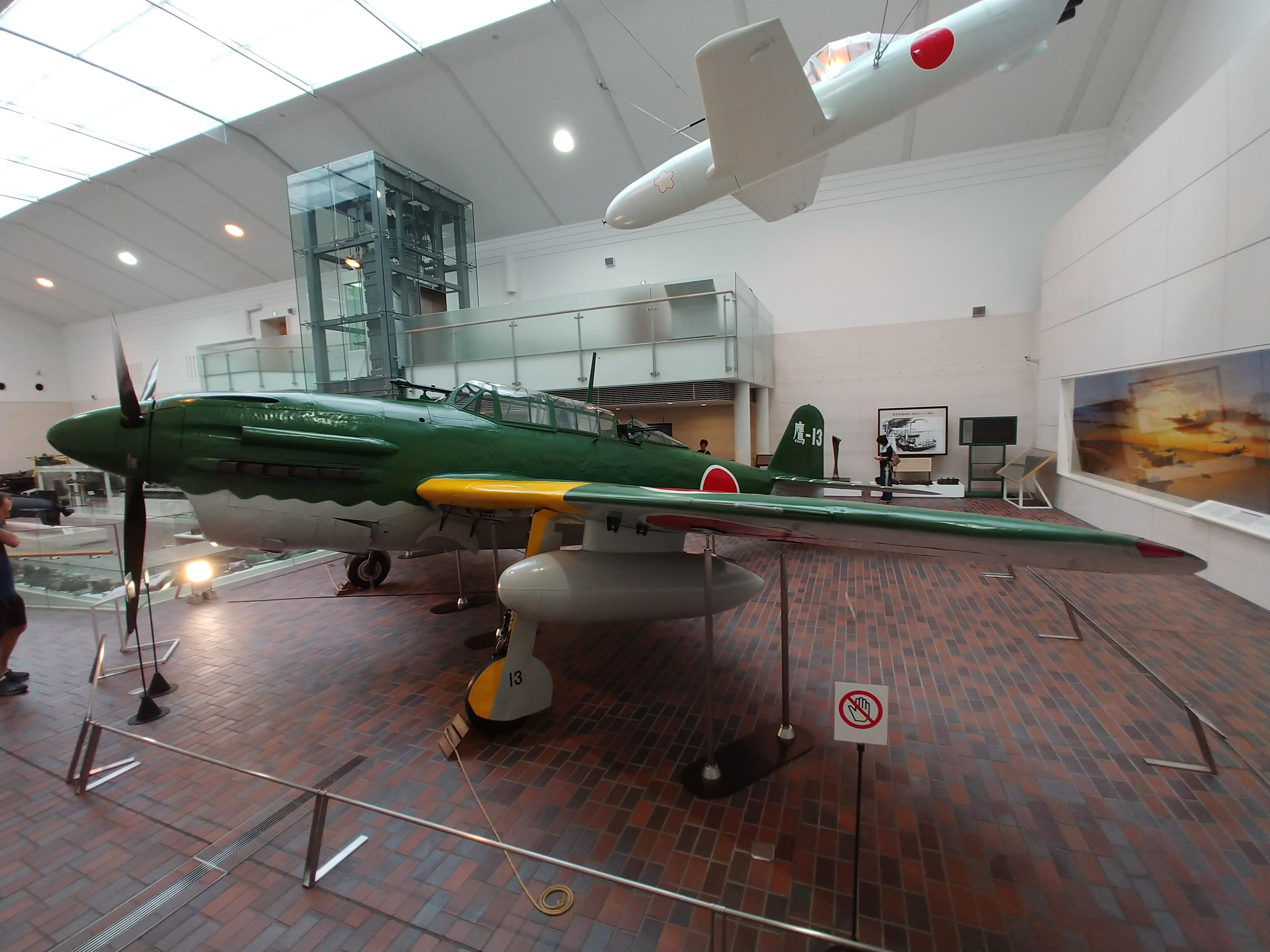 This restored example of a Yokosuka D4Y1 dive bomber (serial number 4316) likely served in the Pacific Theater of WWII before being abandoned in the Yap Islands in the Western Pacific. The wreck was rediscovered by Endo Nobuhiko in 1972 in the jungle alongside a former airfield in the Yap Islands. The Nippon Television Network Corporation helped to return the aircraft to Japan in 1980. It was restored at the Kisarazu Ground Self Defense Forces Base under the leadership of aircraft researcher Tanaka Shoichi. The completed aircraft was dedicated to the Yūshūkan War Museum at the Yasukuni Shrine on April 5, 1981. The aircraft currently resides in the large first floor exhibit room at the Yūshūkan.